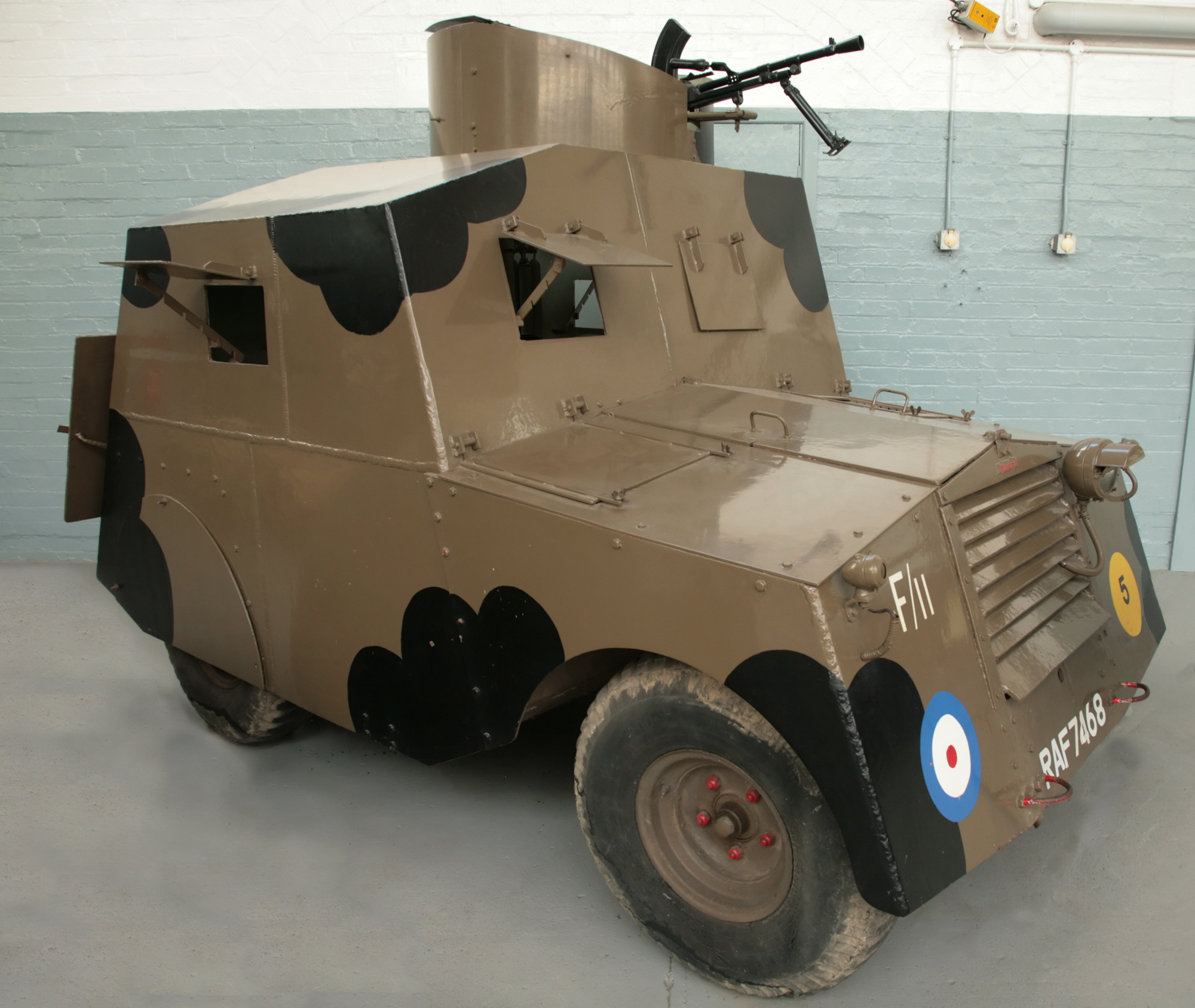 A British Standard Beaverette armored car at RAF Duxford